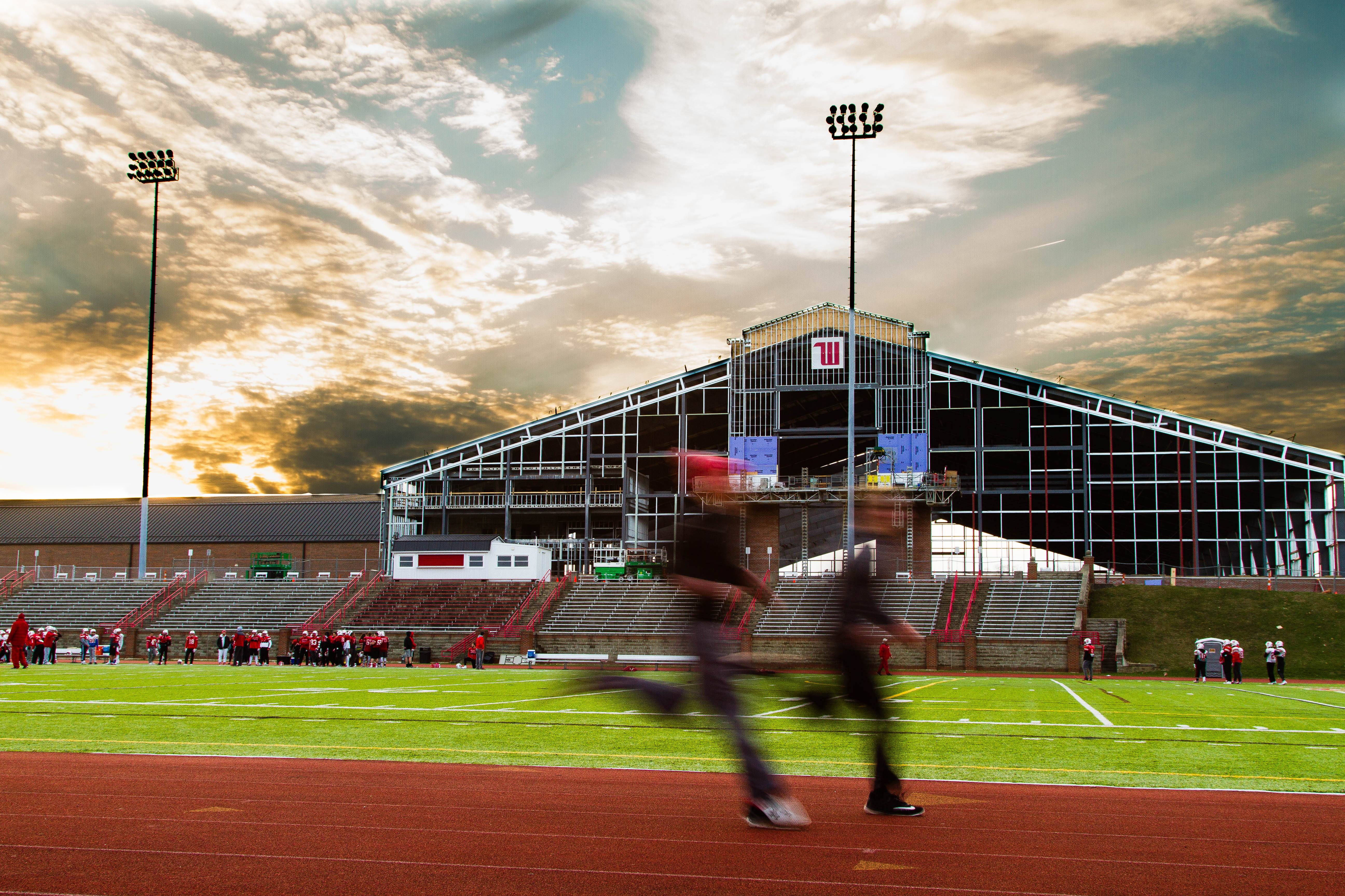 Wittenberg Track and Field runners practice in front of the The Steemer Indoor Fieldhouse on Nov 8, 2018. (Trent Sprague/Wittenberg University)